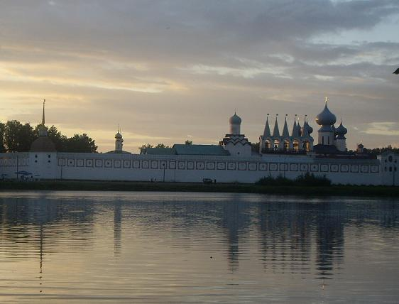 Tikhvinsky Monastery, view from Tabory Pond